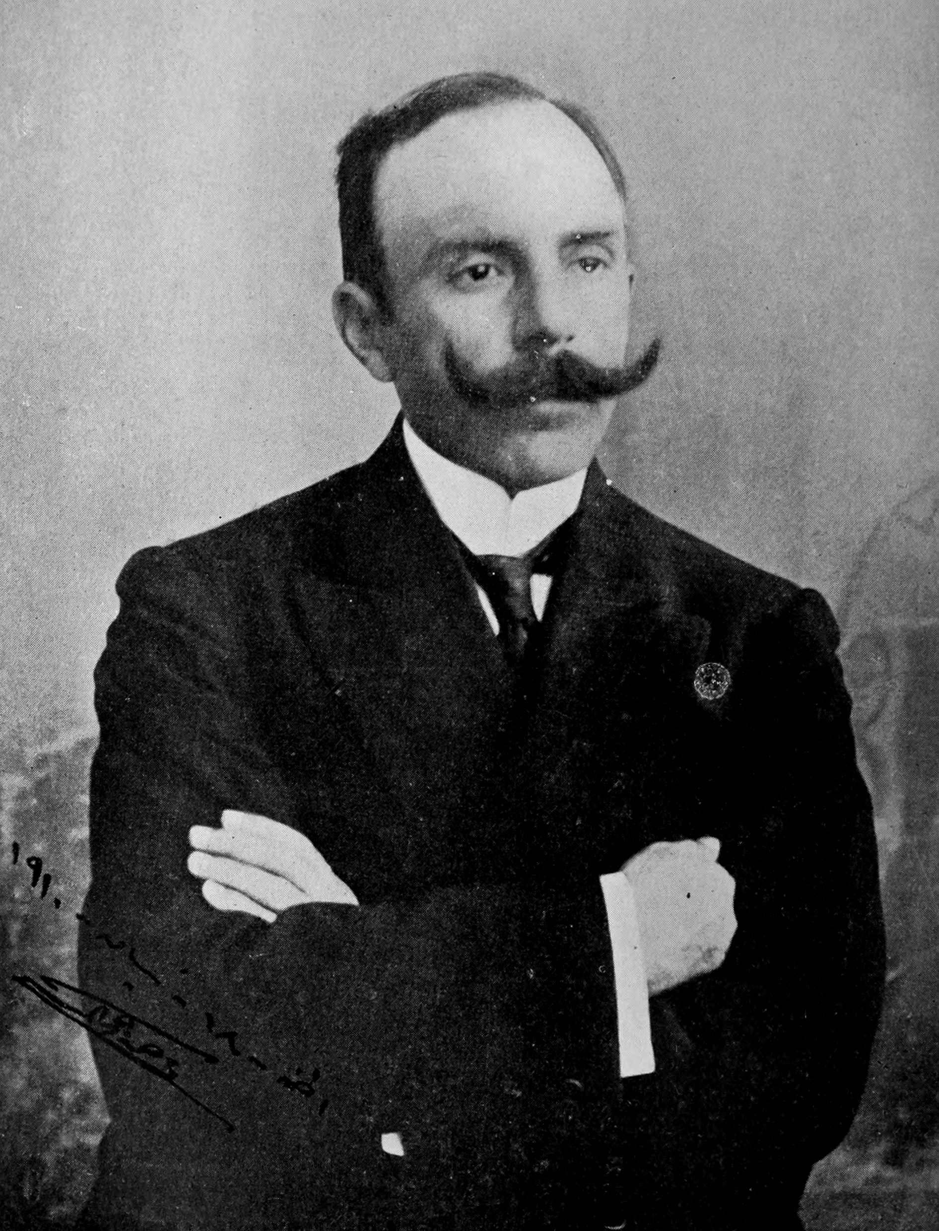 Djemal Pasha (1909) when he was Vali of Adana